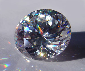 Photo of a round brilliant-cut cubic zirconia. Due to its low cost and close visual likeness to diamond, cubic zirconia has remained the most gemologically and economically important diamond simulant since 1976.